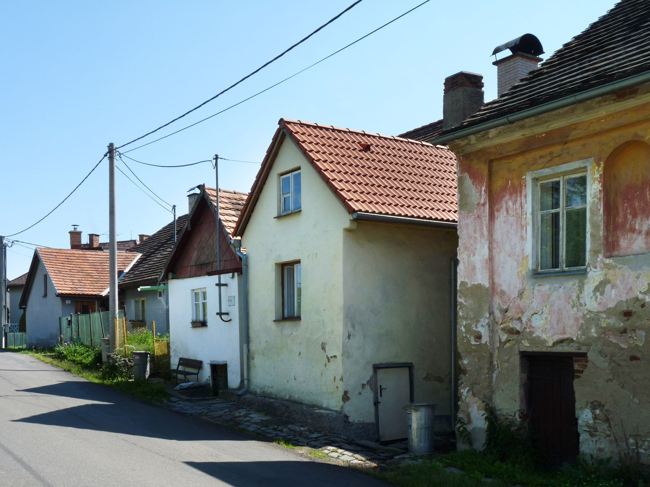 Former Jewih houses on the left of the former synagogue, house No 55, in the municipality of Podmokly, Klatovy District, Plzeň Region, Czech Republic.